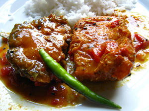 The cooked fish in the traditional Assamese/Bengali style.